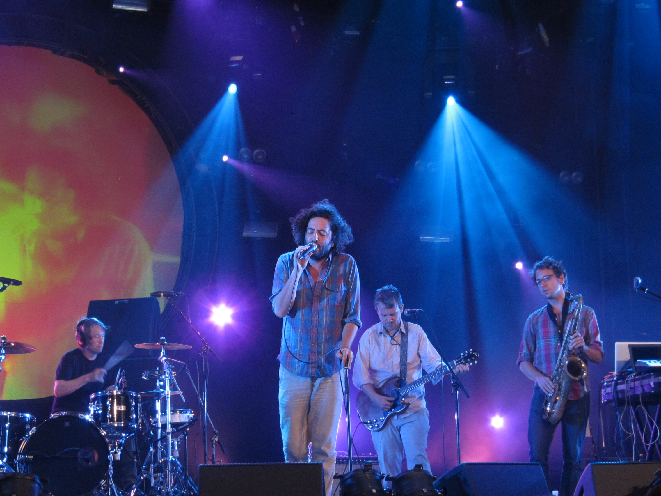 Destroyer performing at Flow Festival in Helsinki, Finland on August 12, 2011